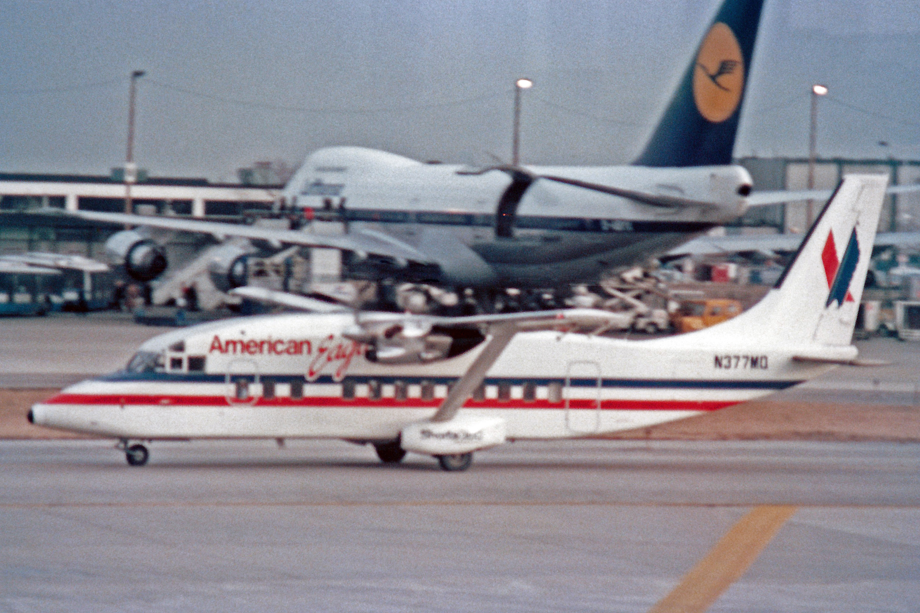 Replacing an earlier scanned photo with a better version. Operated by Simmons Airlines on behalf of American Eagle.